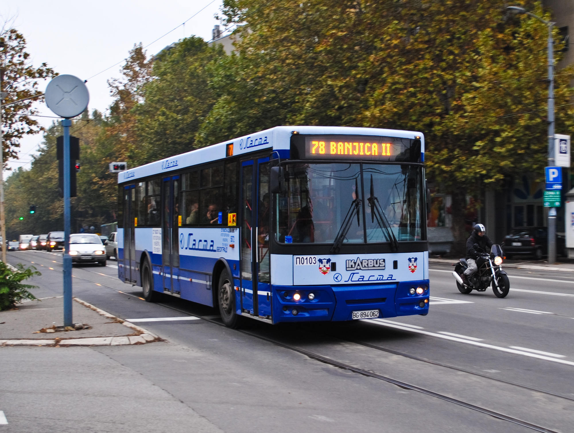 Lasta bus Ikarbus IK-103 participating in public transport in Belgrade Lastin autobus Ikarbus IK-103 sa kojim učestvuje na gradskim linijama u Beogradu